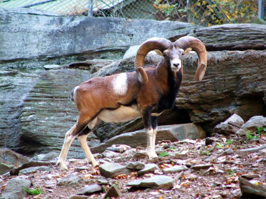 Mouflon Ram photographed by Jessica Dennett, 2006.